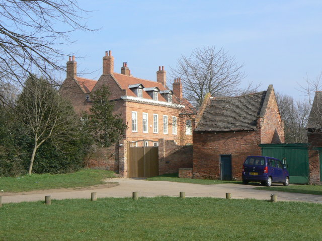 The Old Rectory, Wilford. This is the parsonage referred to here, 1218001, together with the Dove coat, and off-picture to the right either the barn or stables. The house probably dates from the early 18th century.